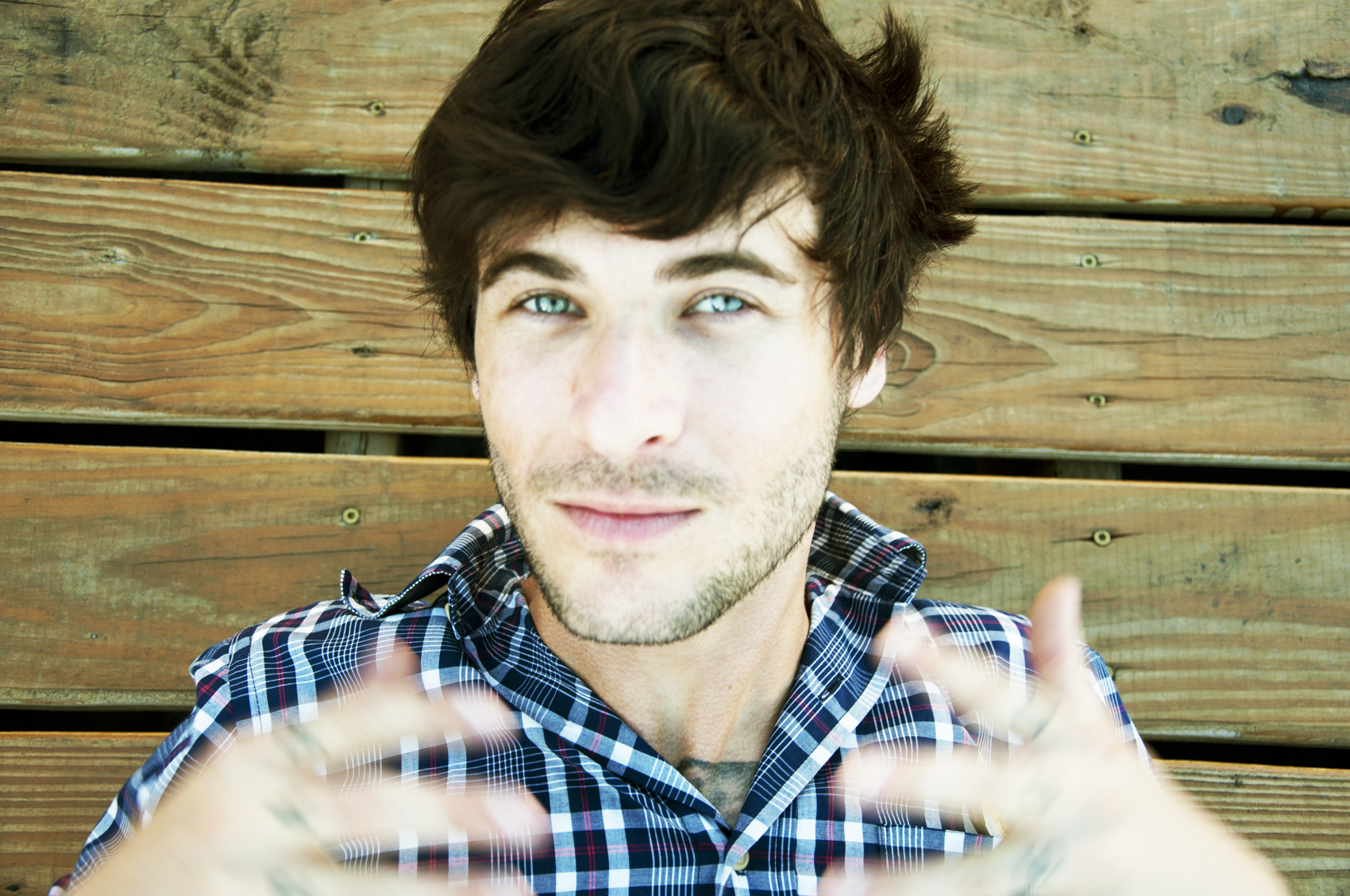 Fin Leavell in NYC in Autumn 2012